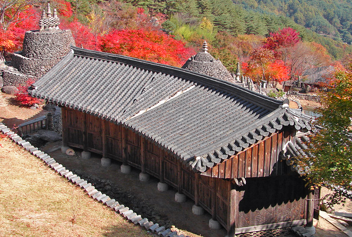 Back of Cheongung, or the main Shrine Hall of the Three Sages, on the grounds of Samseonggung. Samseonggung Shrine is dedicated to the traditional worship of the three mythical creators of Korea: Hwanin, Hwanung, and Dangun.